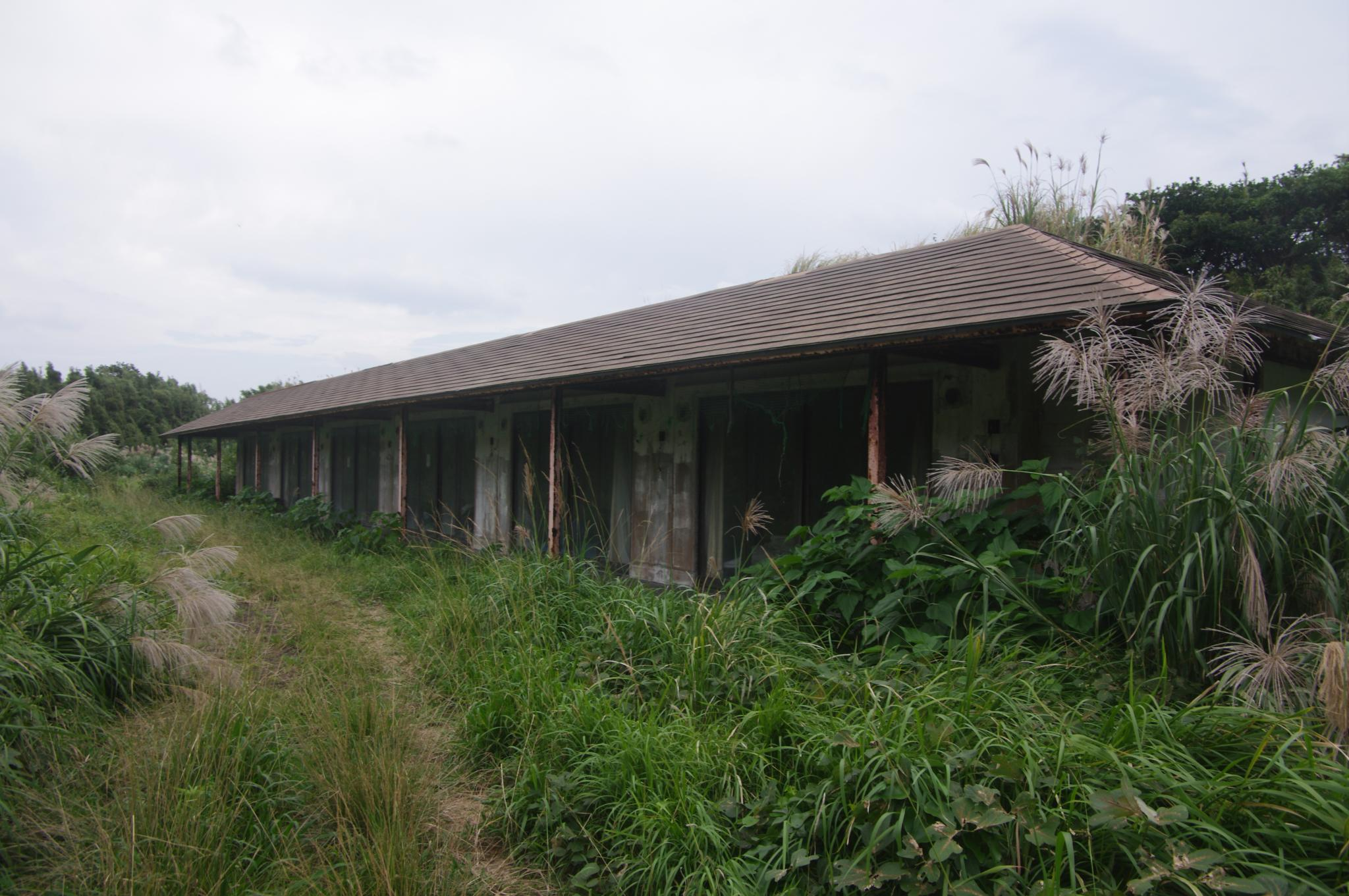 Ruin of Ryoso Tokara, a resort hotel in Suwanosejima, Kagoshima. It was developed by Yamaha Resort and opened in 1977, but was closed in 1982.